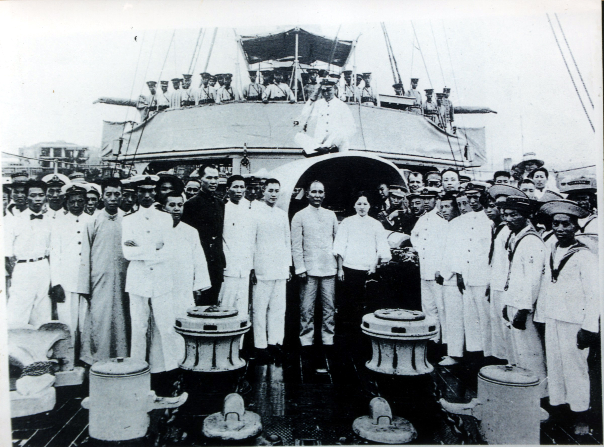 Zhongshan gunboat crew